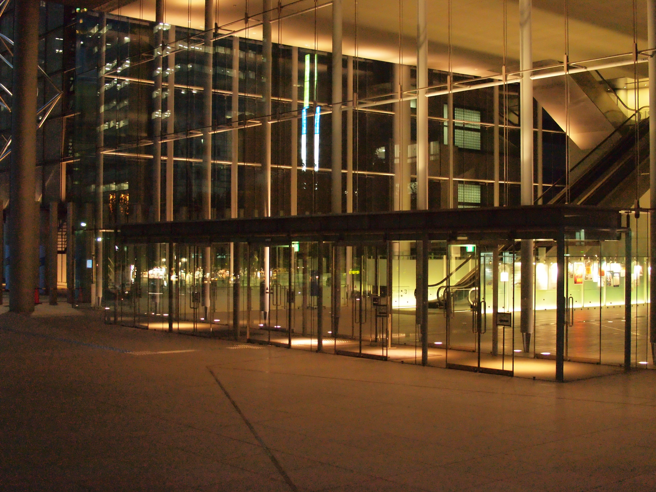 Meiji University